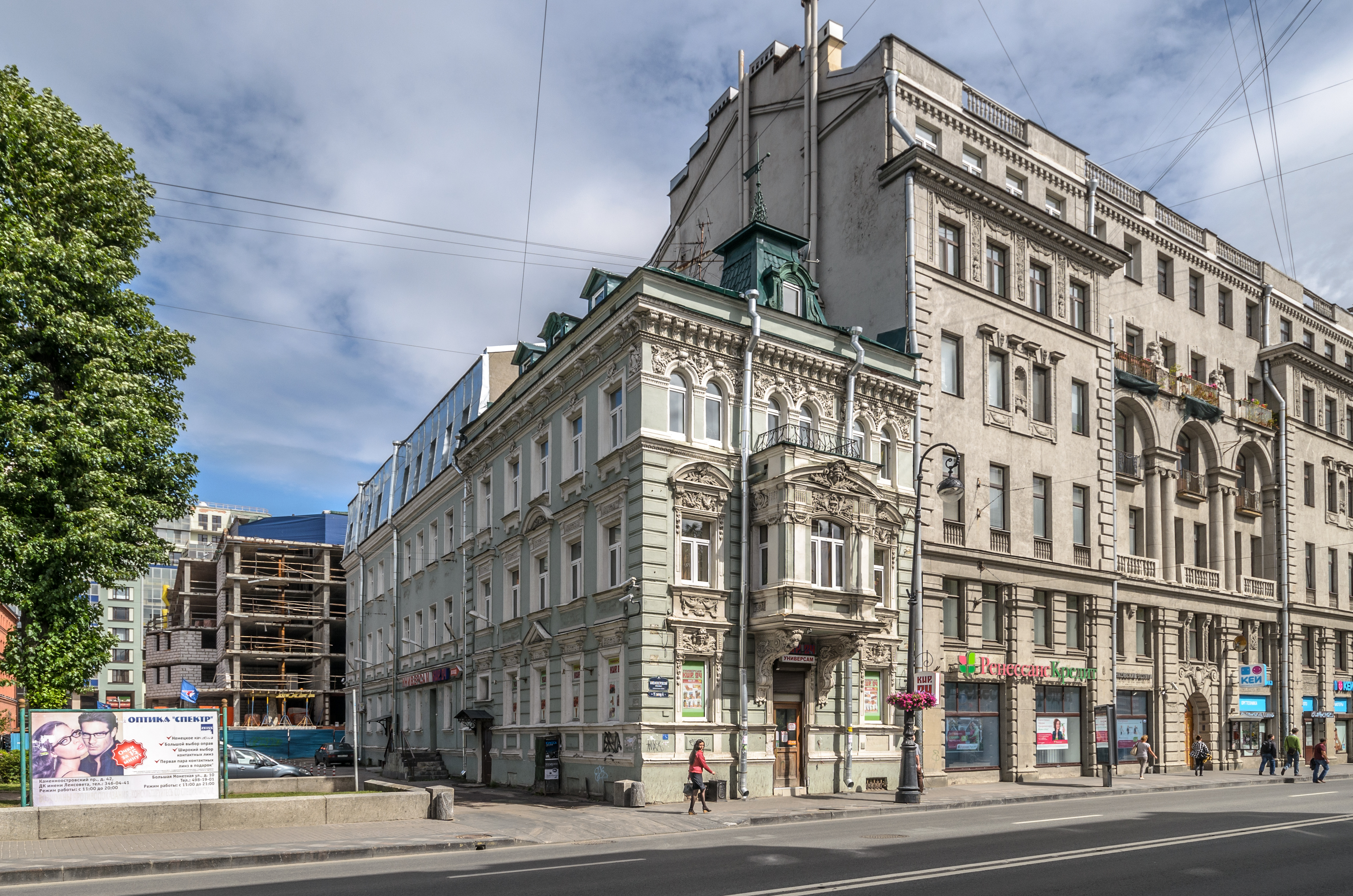 Kamennoostrovsky Avenue in Saint Petersburg